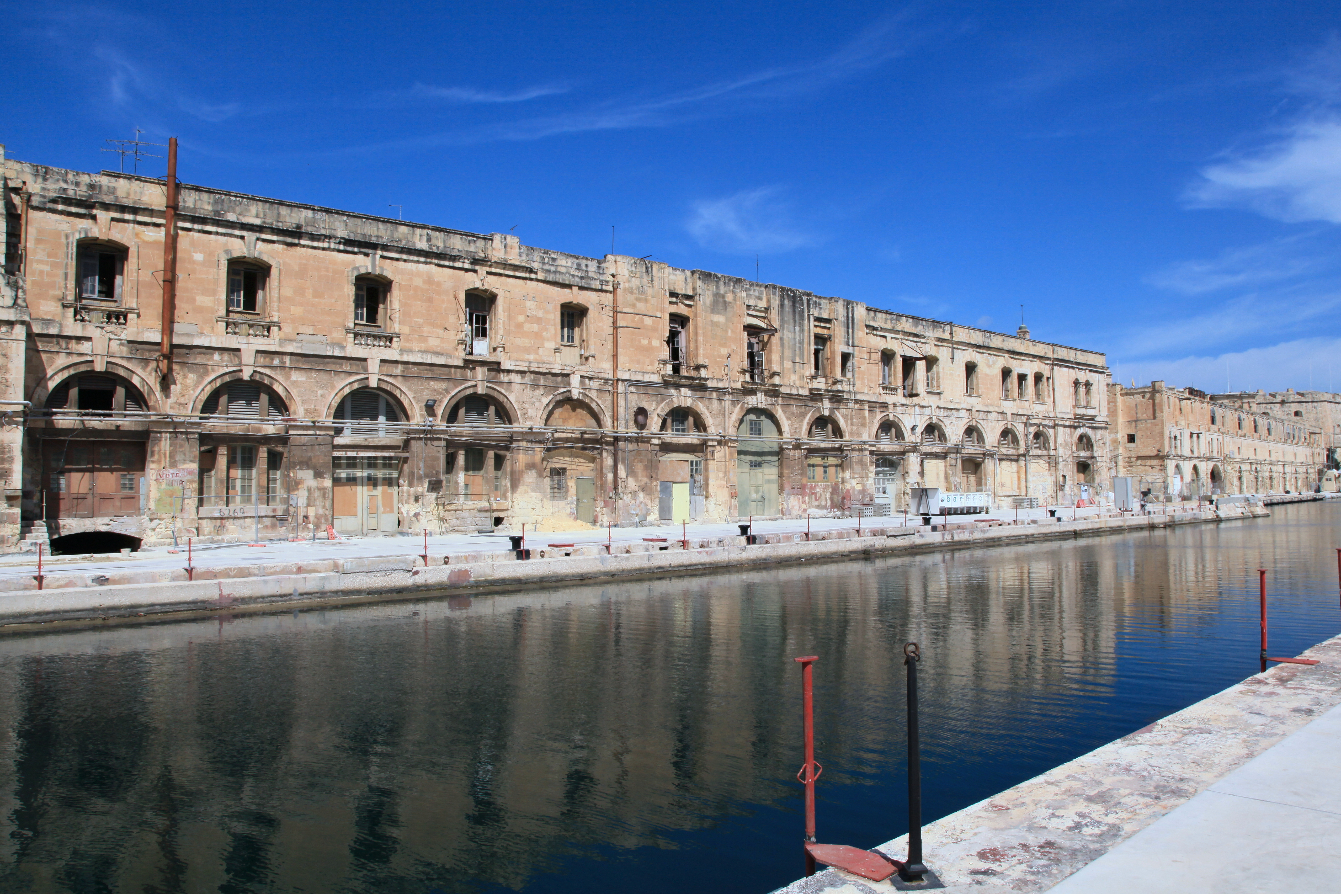 Restored Grand Harbour Dock no. 1 at Fuq San l-Inkurunazzjoni in Cospicua, Malta